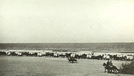 Sandcart convoy travelling on the beach from El Arish after the battle of Magdhaba